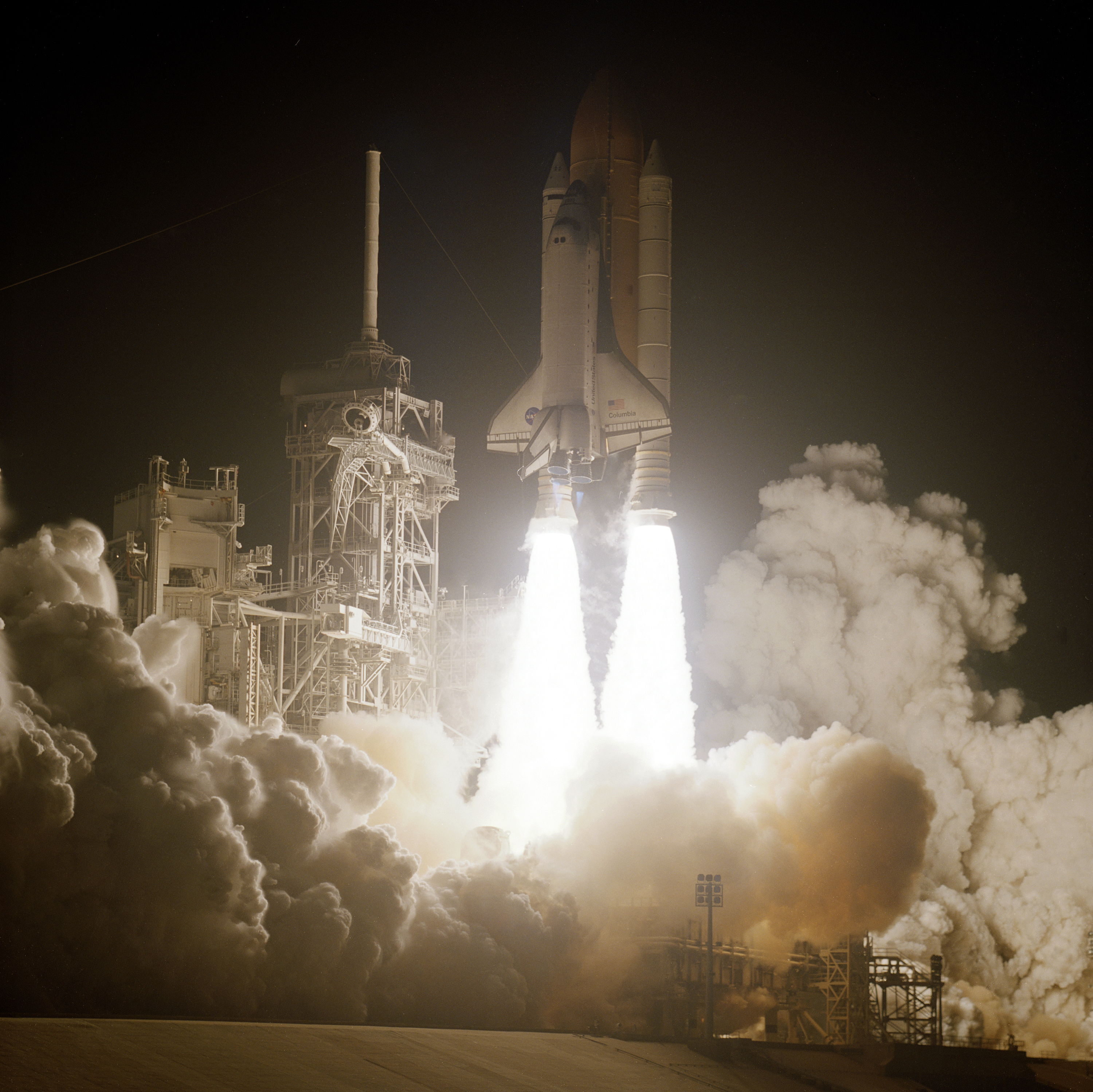 Carrying the STS-109 crew of seven, the Space Shuttle Orbiter Columbia blasted from its launch pad as it began its 27th flight and 108th flight overall in NASA's Space Shuttle Program. Launched March 1, 2002, the goal of the mission was the maintenance and upgrade of the Hubble Space Telescope (HST) which was developed, designed, and constructed by the Marshall Space Flight Center. Captured and secured on a work stand in Columbia's payload bay using Columbia's robotic arm, the HST received the following upgrades: replacement of the solar array panels; replacement of the power control unit (PCU); replacement of the Faint Object Camera (FOC) with a new advanced camera for Surveys (ACS); and installation of the experimental cooling system for the Hubble's Near-Infrared Camera and Multi-object Spectrometer (NICMOS), which had been dormant since January 1999 when it original coolant ran out. Four of the crewmembers performed 5 space walks in the 10 days, 22 hours, and 11 minutes of the the STS-109 mission.